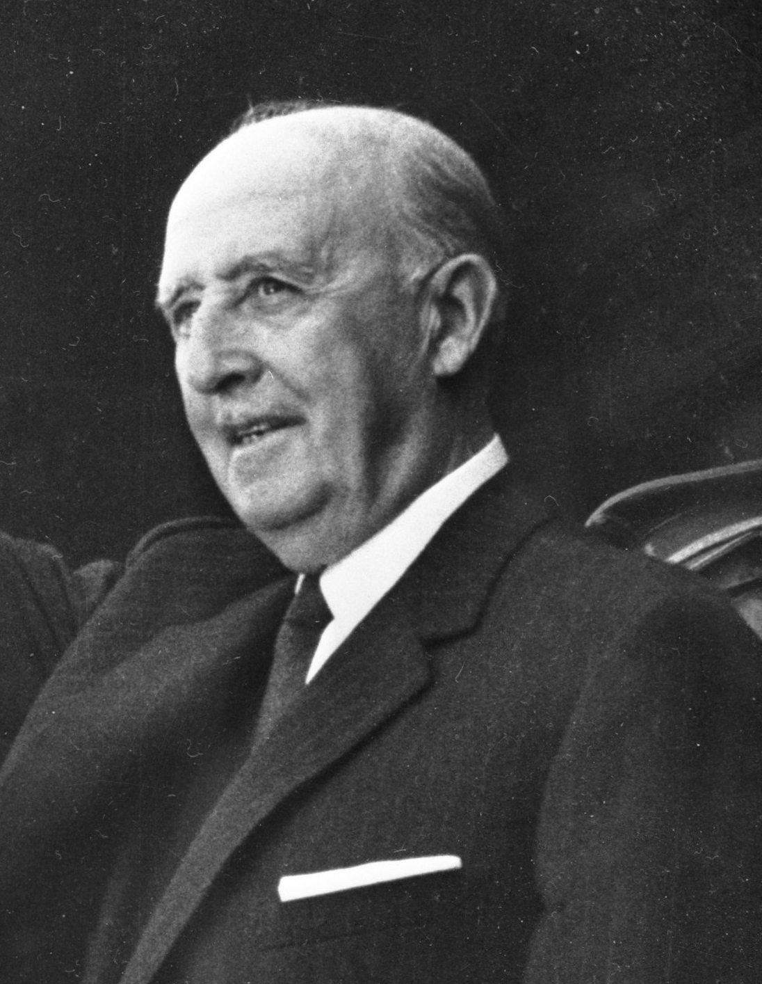 Head of State of Spain General Francisco Franco, May 1968